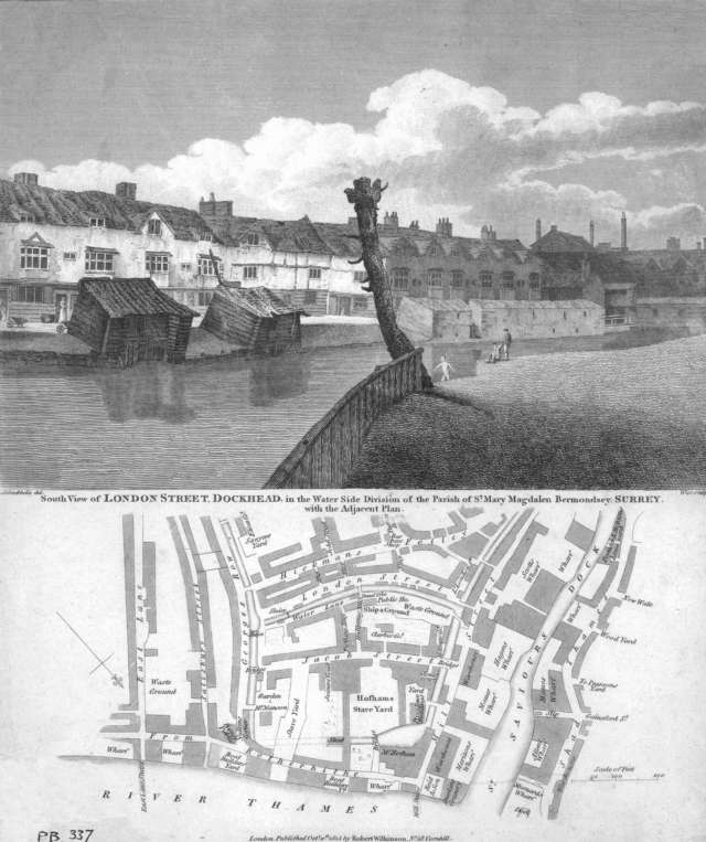 A drawing and map of Jacob's Island, a notorious slum from Victorian England, today a part of Bermondsey, London